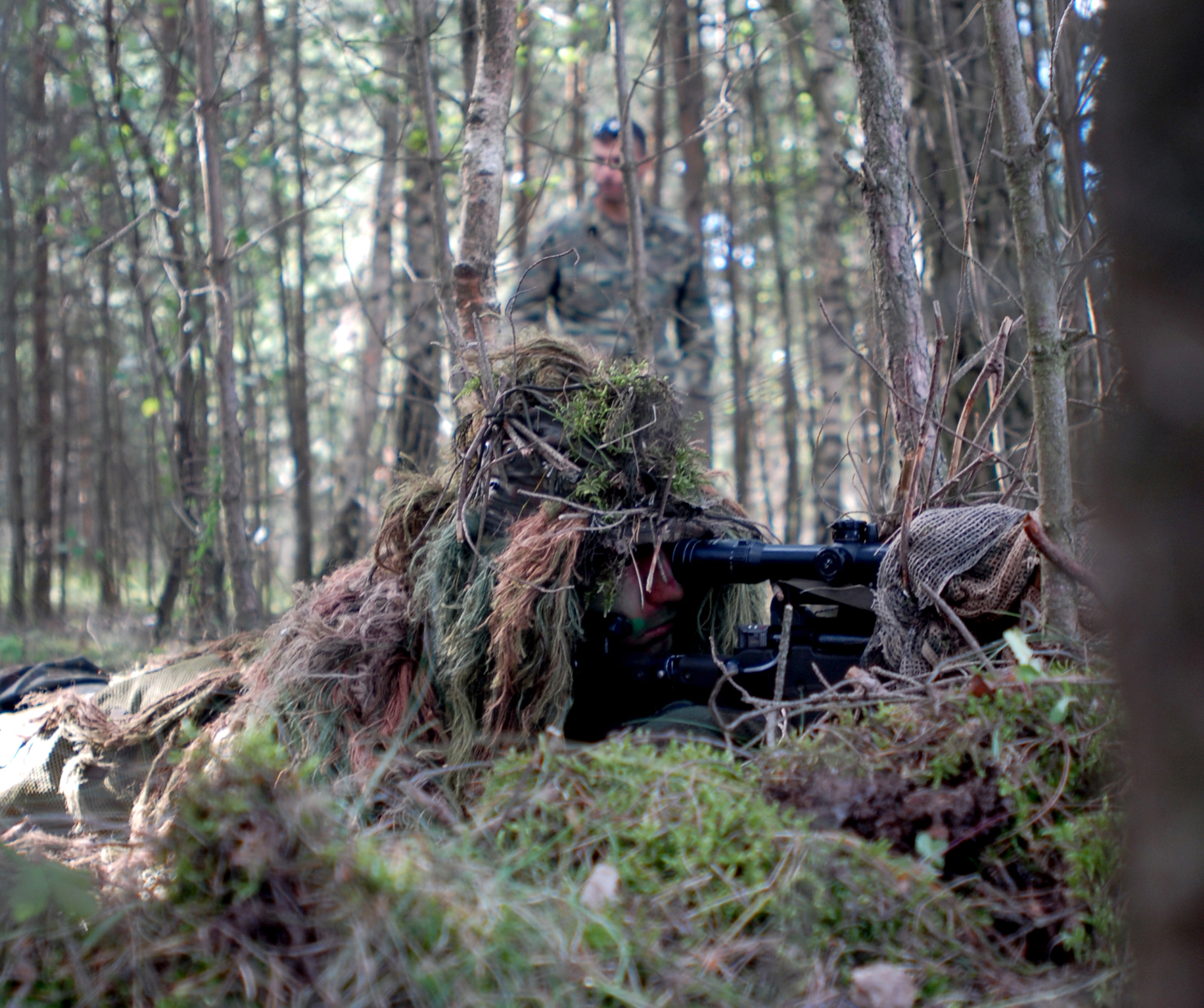 A German Special Forces soldier lines his sites on a target 500 meters away, and awaits direction from an International Special Training Centre instructor to engage the target. The German Soldier was one of 10 troops from four different countries attending the sniper training course offered by the ISTC.